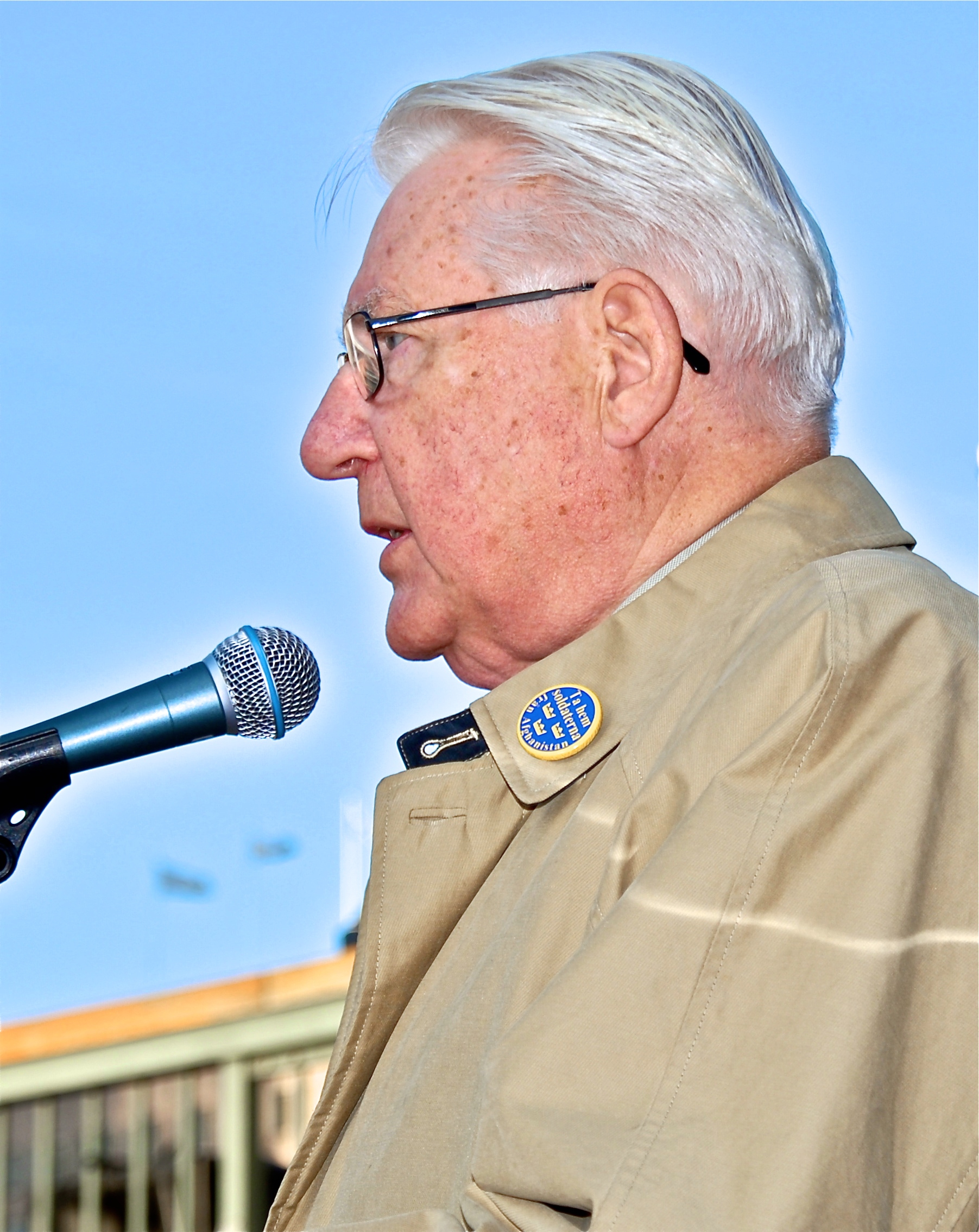 Thage G. Peterson in a speech from Sergels torg in Stockholm October 9, 2010 against Swedens Commitment in Afghanistan.